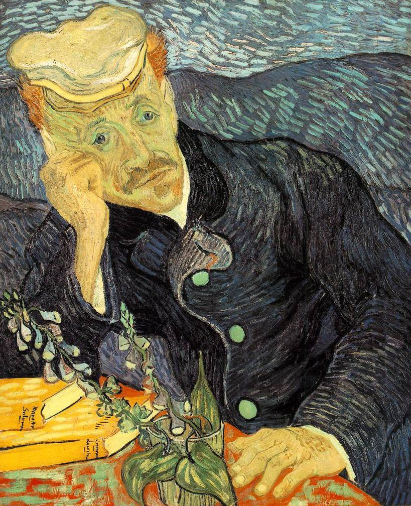 Portrait of Dr. Gachet This painting is the first version of this motif Portrait of Dr. Gachet was painted in June 1890 at Auvers-sur-Oise, during the last months of van Gogh's life, before his suicide. He made two versions of the painting, which differ in color. Both are oil-on-canvas and measure 67 by 56 cm (26" by 22") in size. The first (this picture) was sold to a private collector in 1990 for $82.5 million; the second painting is currently on display at the Musée d'Orsay in Paris, France. This is one of the most expensive paintings created by Vincent van Gogh.